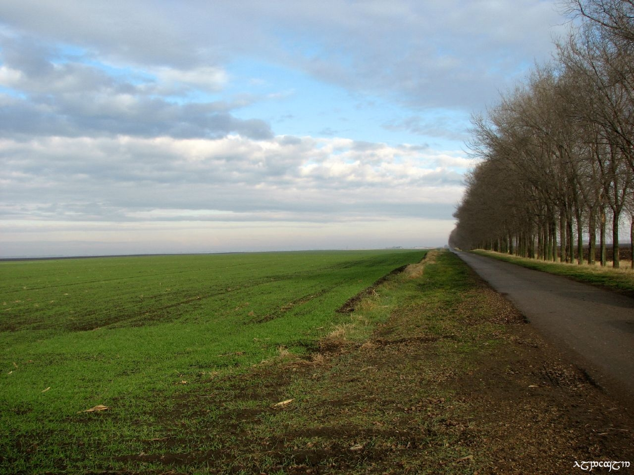 плодна равница у Габошу